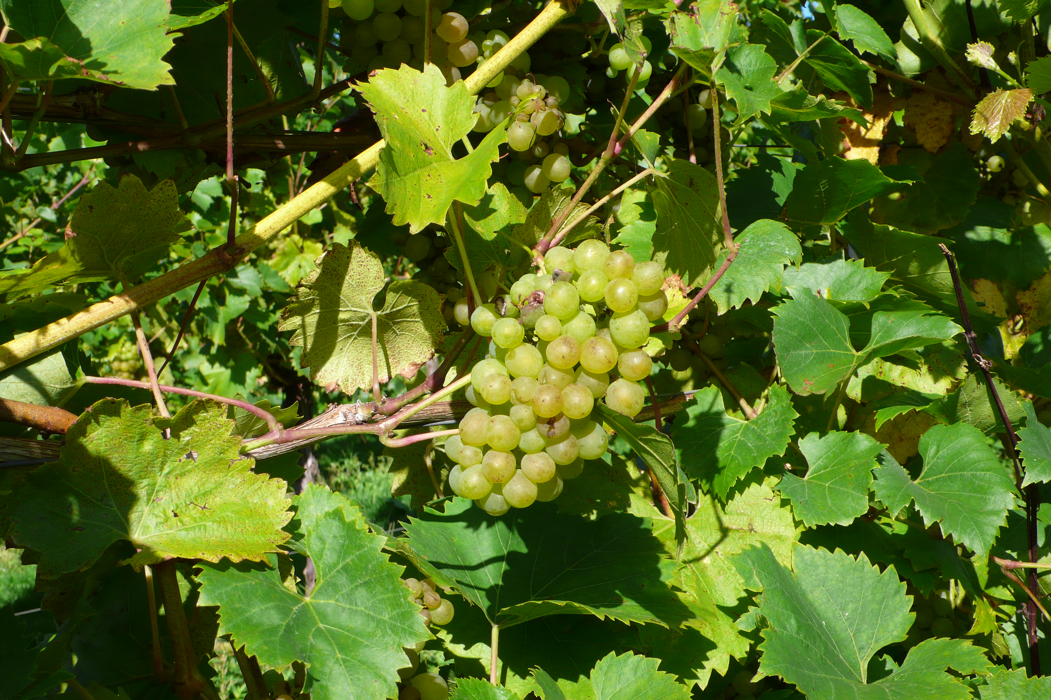 Madeleine Angevine at the end of September in England. The grapes are near ripeness as indicated by the darkening of the stems and the translucent coloring of the grape skins.